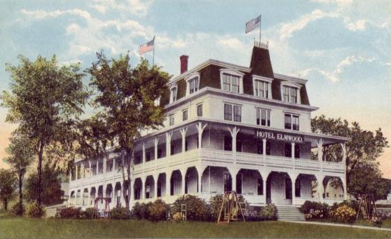 Hotel Elmwood, Wolfeboro, NH; from a c. 1915 postcard. First called the Hobbs-Is-Inn, the hotel was located at the site of the present post office.